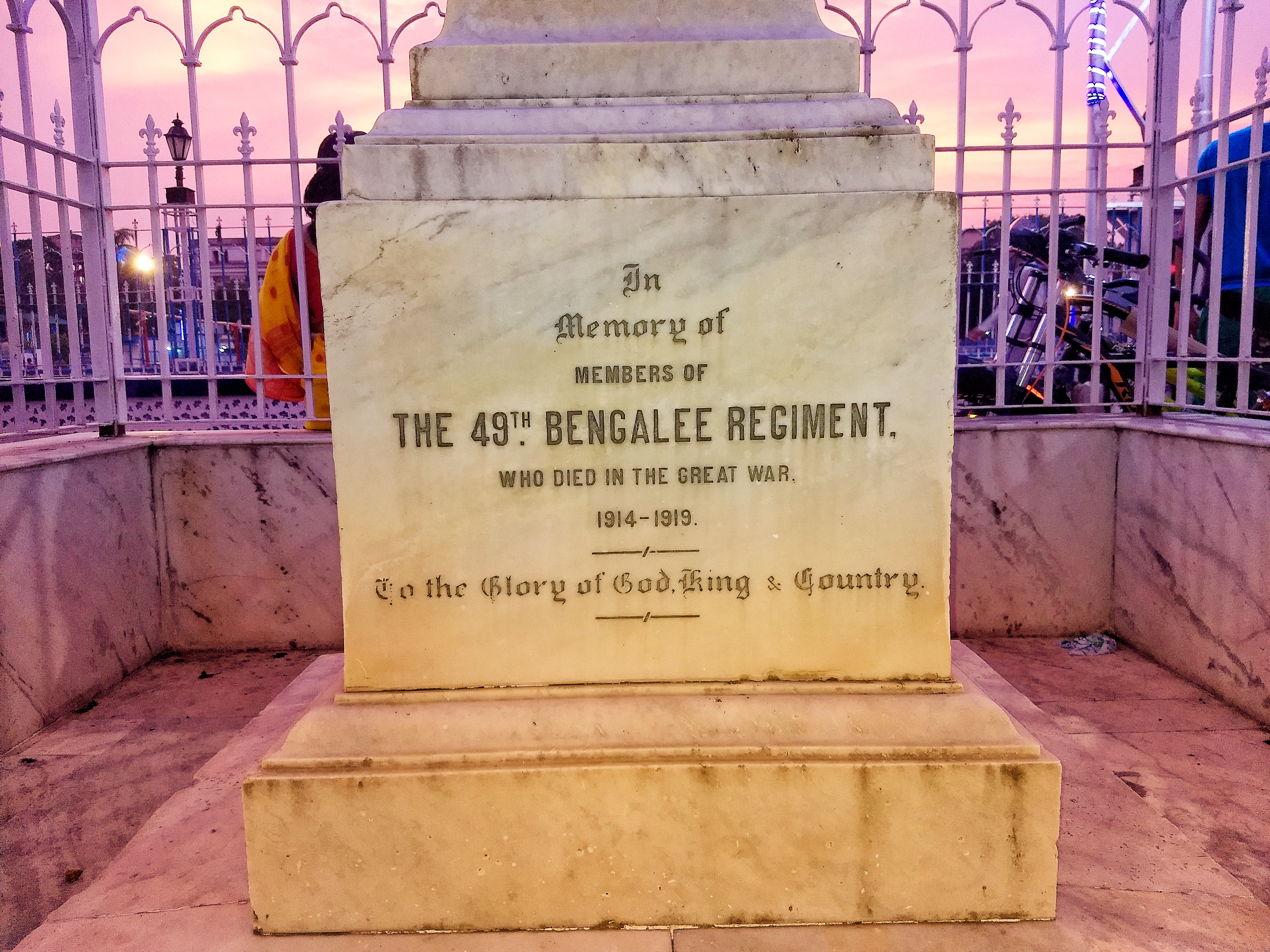 Monument of Bengali Regiment at College Square in Kolkata